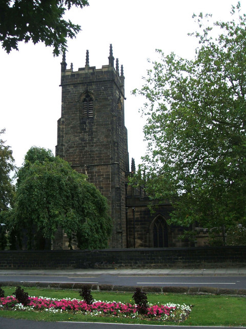 St Mary's Church, Barnsley